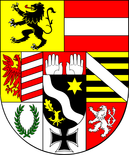 Coat of arms (shield only) of Sigismund Christoph von Schrattenbach, archbishop of Salzburg, Austria (1753 - 1771). Version based on Siebmacher:Bisthümer (tab. 46): Escutcheon based on original family sign described in Wurzbach's Lexicon (Tom. 31, p. 269): "kurzer Eichenstamm oder Stock eines Eichenbaumes".